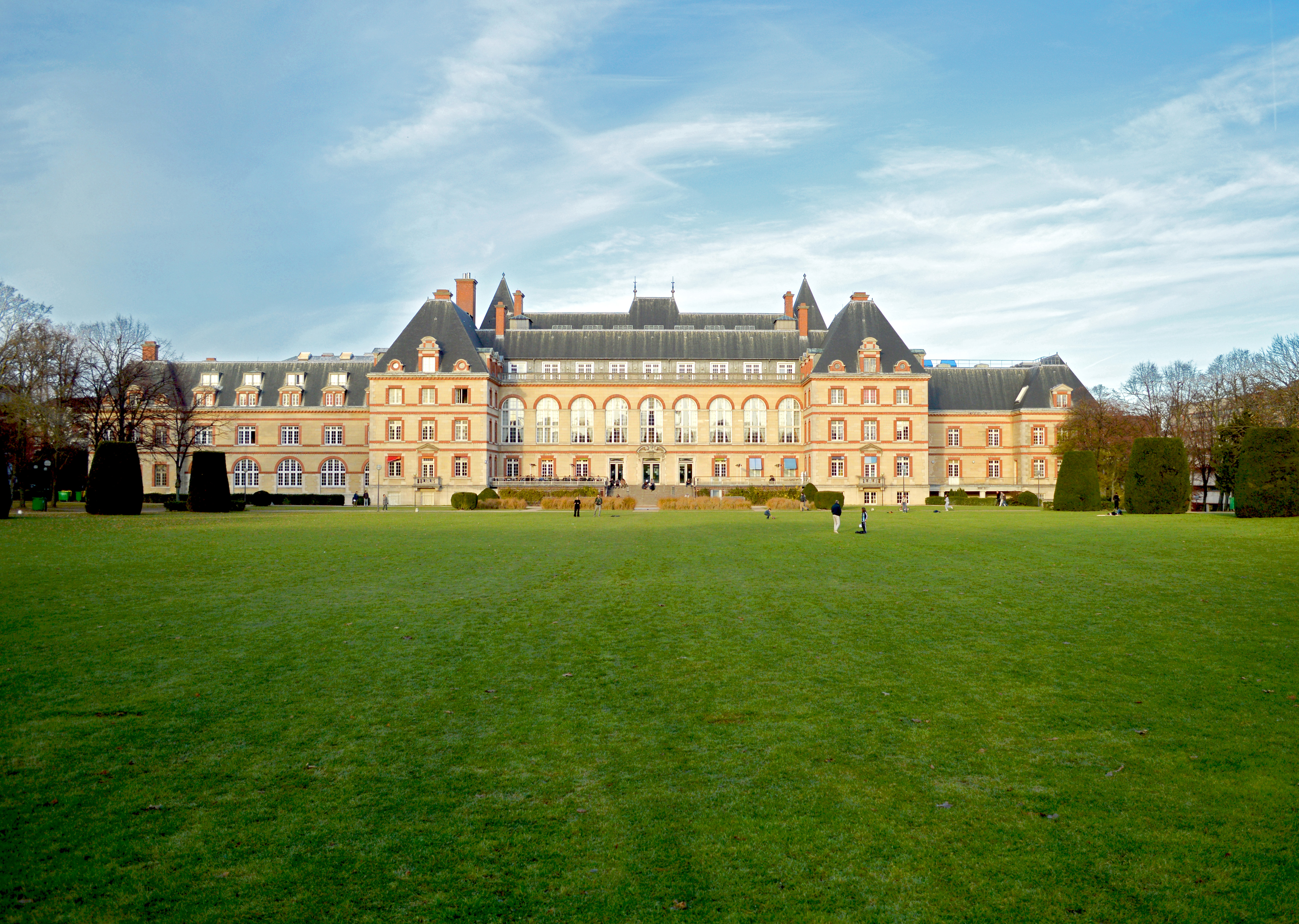 Morning walk at the CIUP. The "grande pelouse" is probably the meeting place of all residents to enjoy the sun and play all sorts of outdoor games.